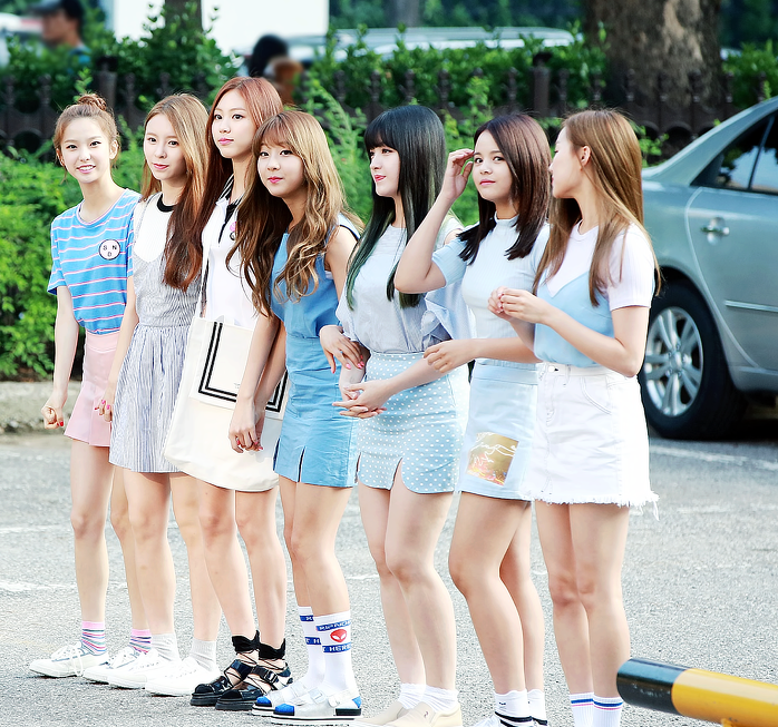 CLC on the way to Music Bank